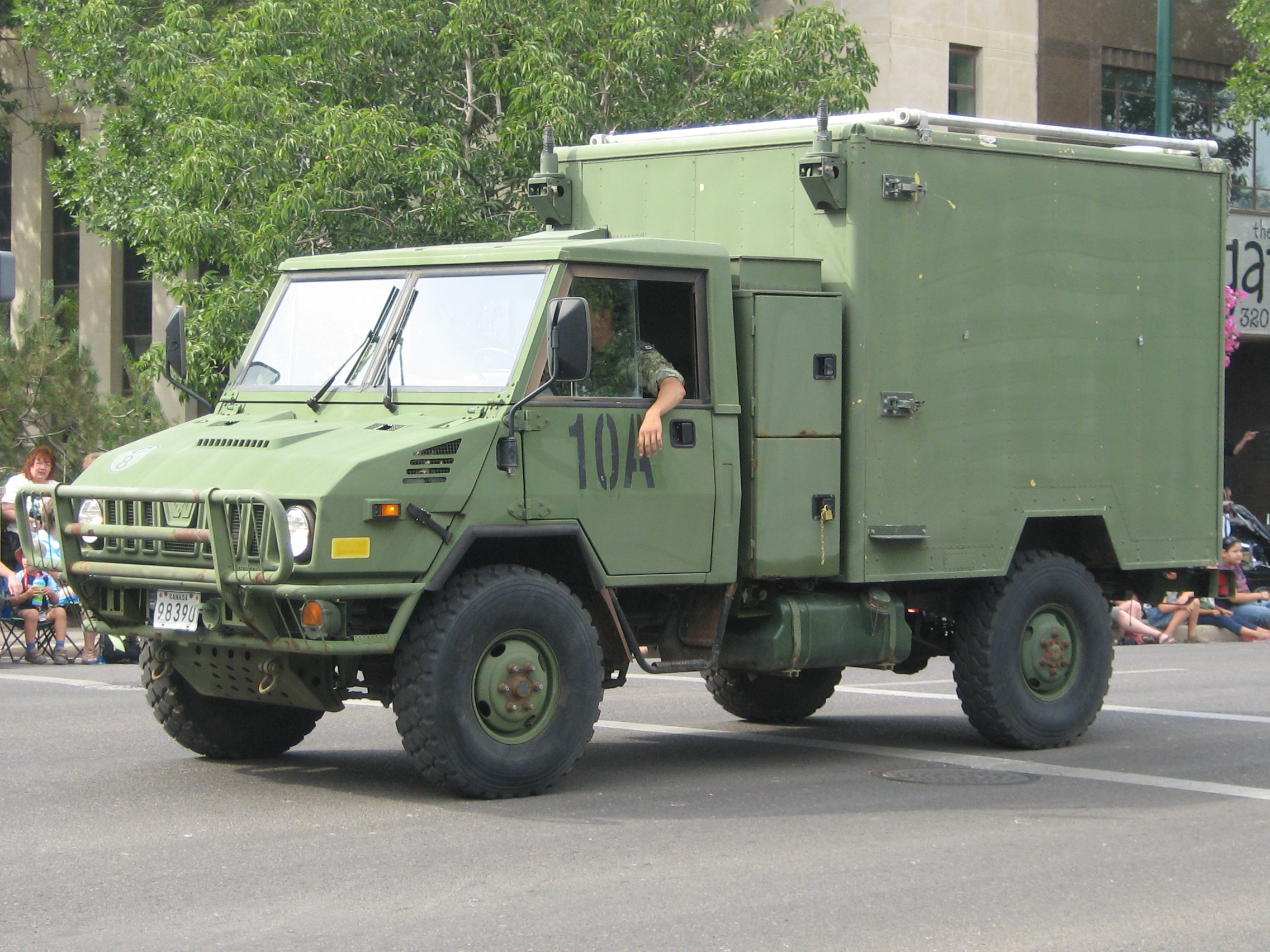 Iveco 40.10WM made under license by Western Star